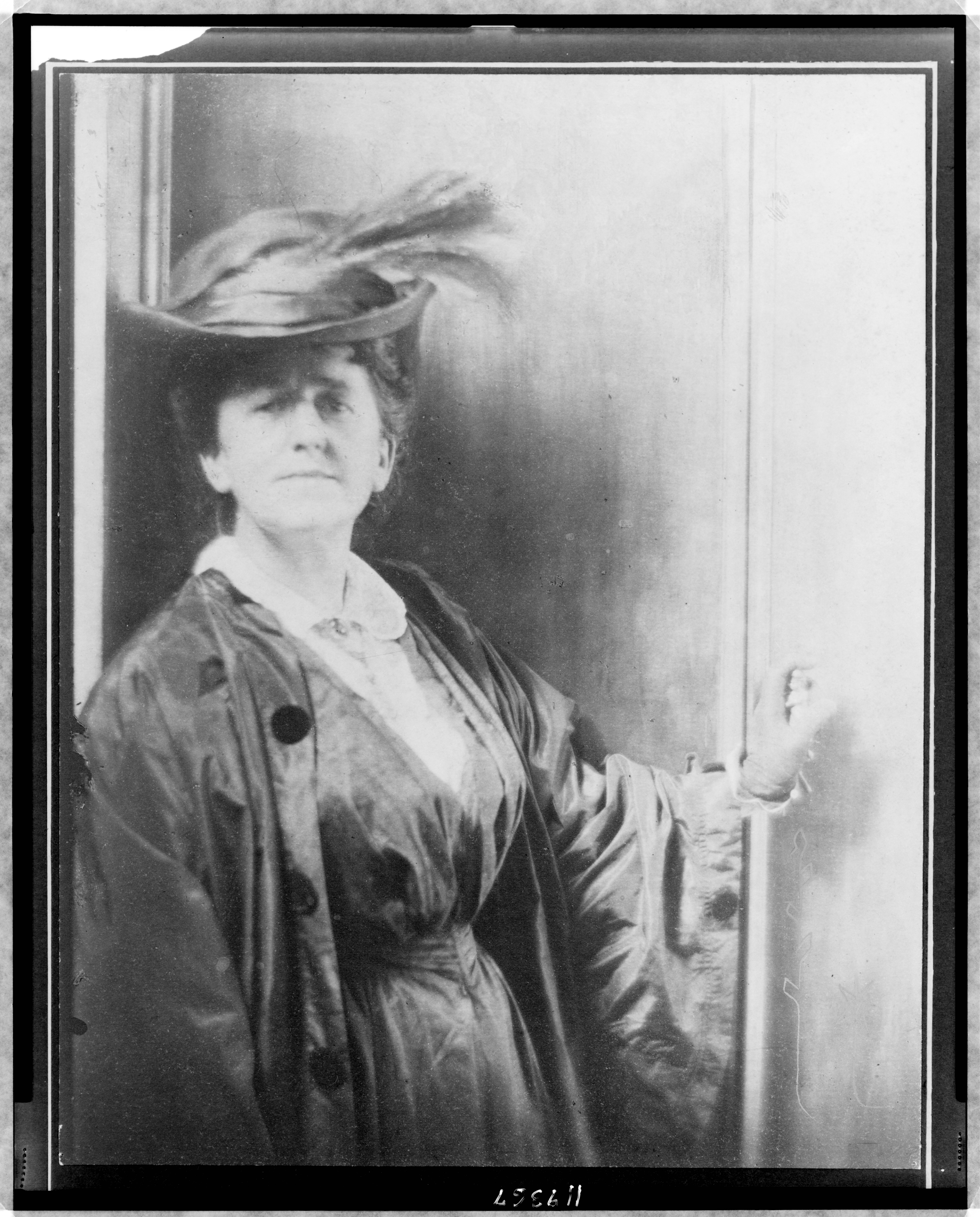 Gertrude Käsebier, wearing feathered hat, standing, facing front, half-length portrait